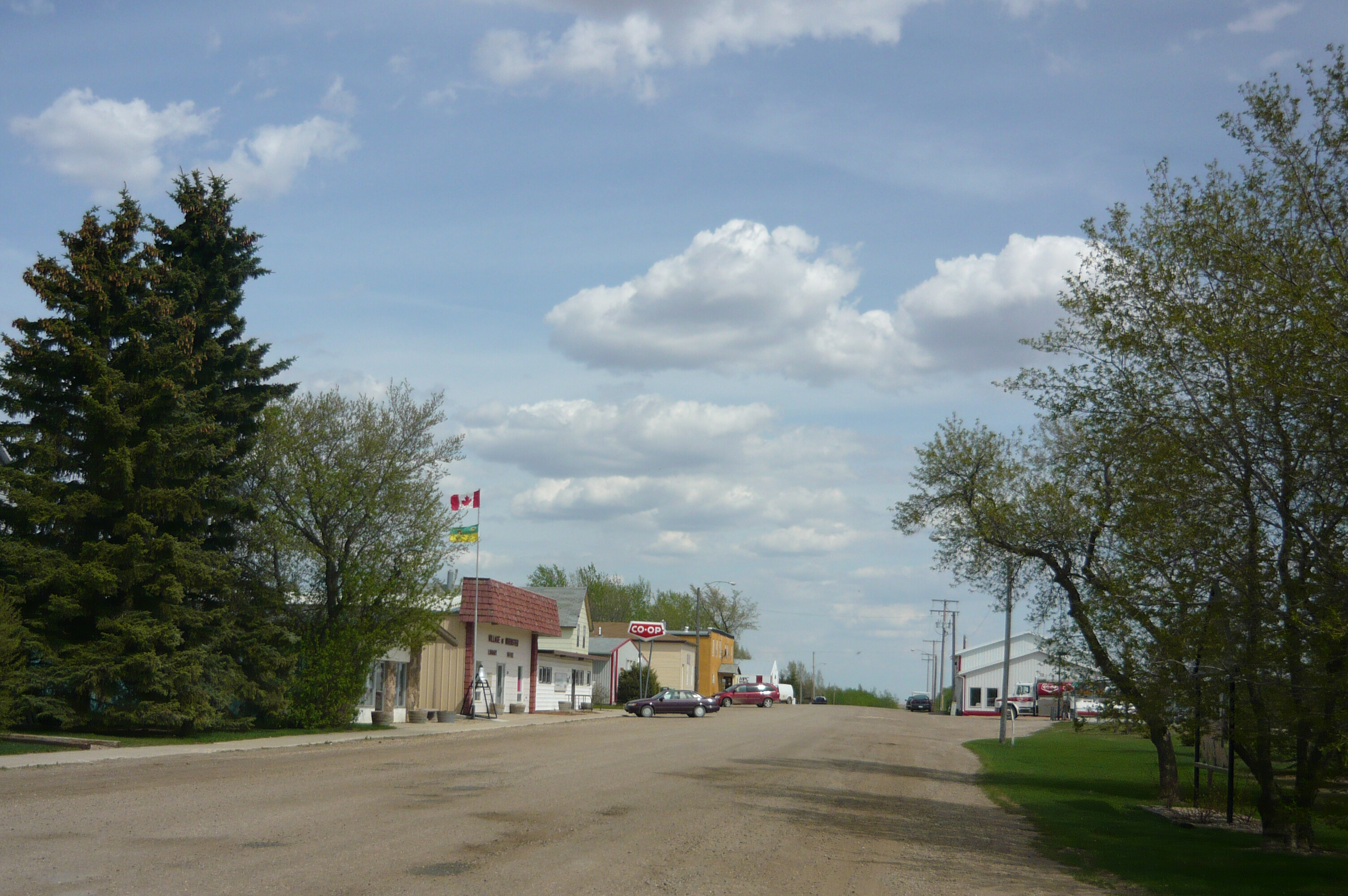 Railway Street (looking eastward), Muenster, Saskatchewan, Canada